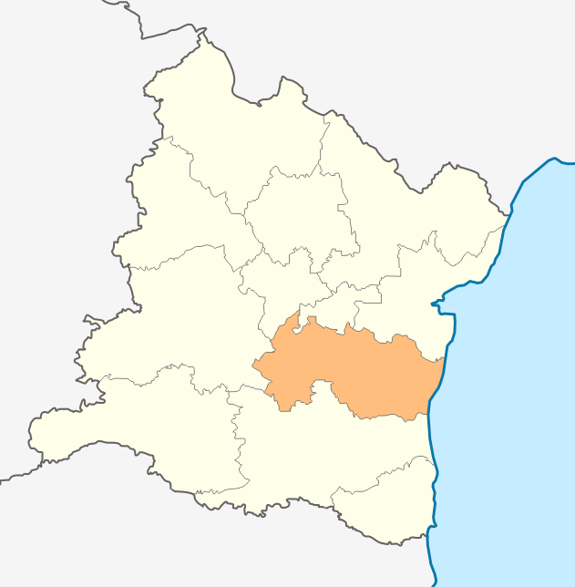 Map of Avren municipality, Varna Province